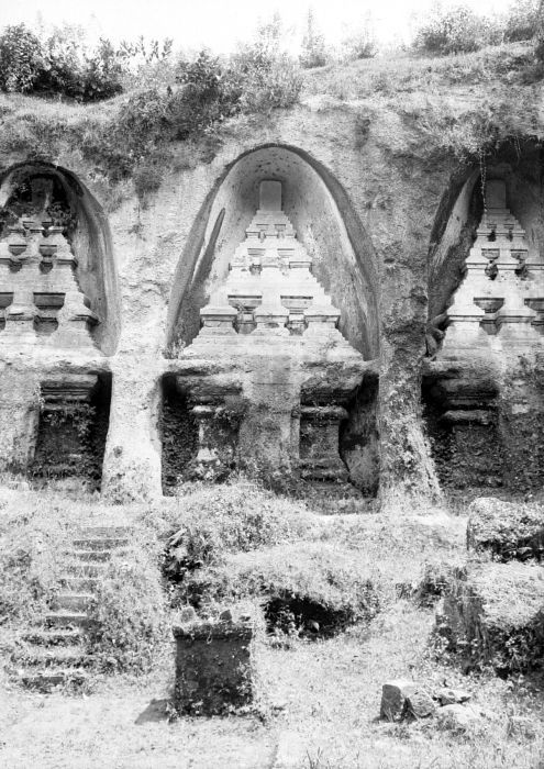 Gunung Kawi near Tampaksiring